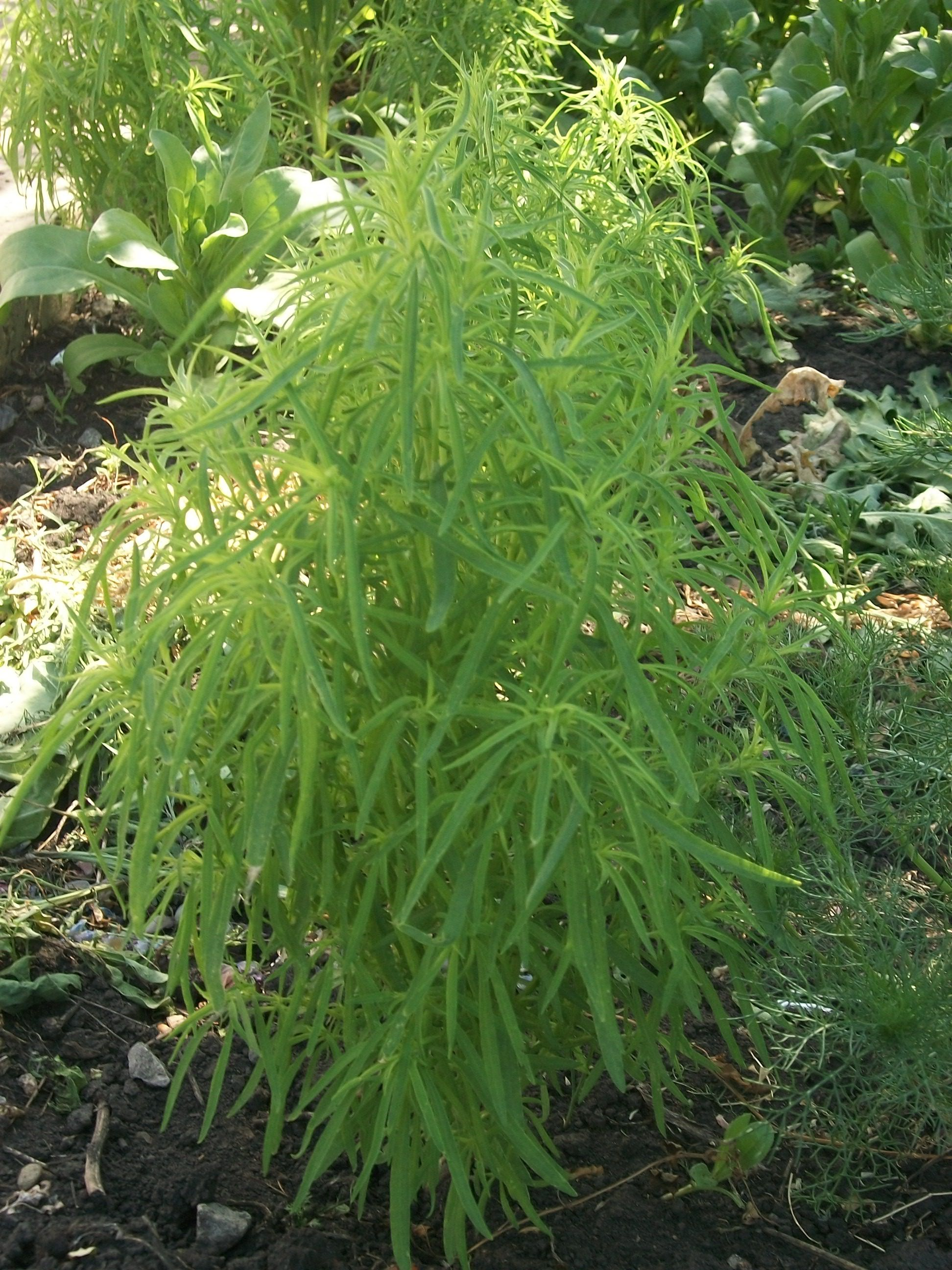 Bassia scoparia (Syn. Kochia scoparia L.